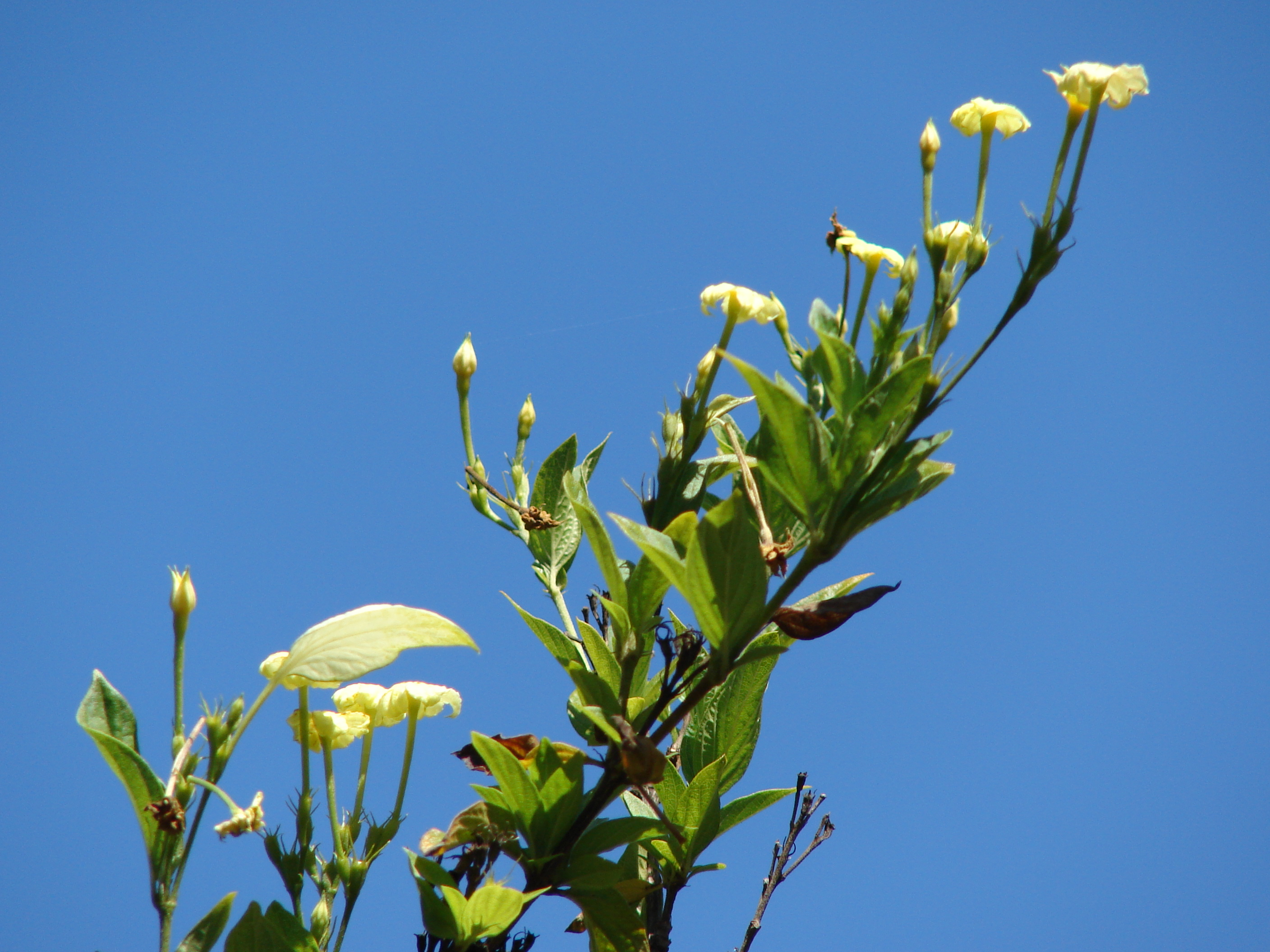 Pseudomussaenda flava (flowers). Location: Maui, Enchanting Floral Gardens of Kula